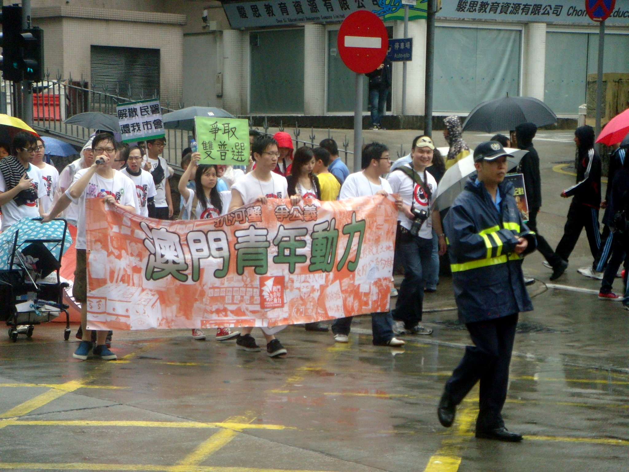 Macao Youth Dynamics leaders in 2013 Macau labour protest